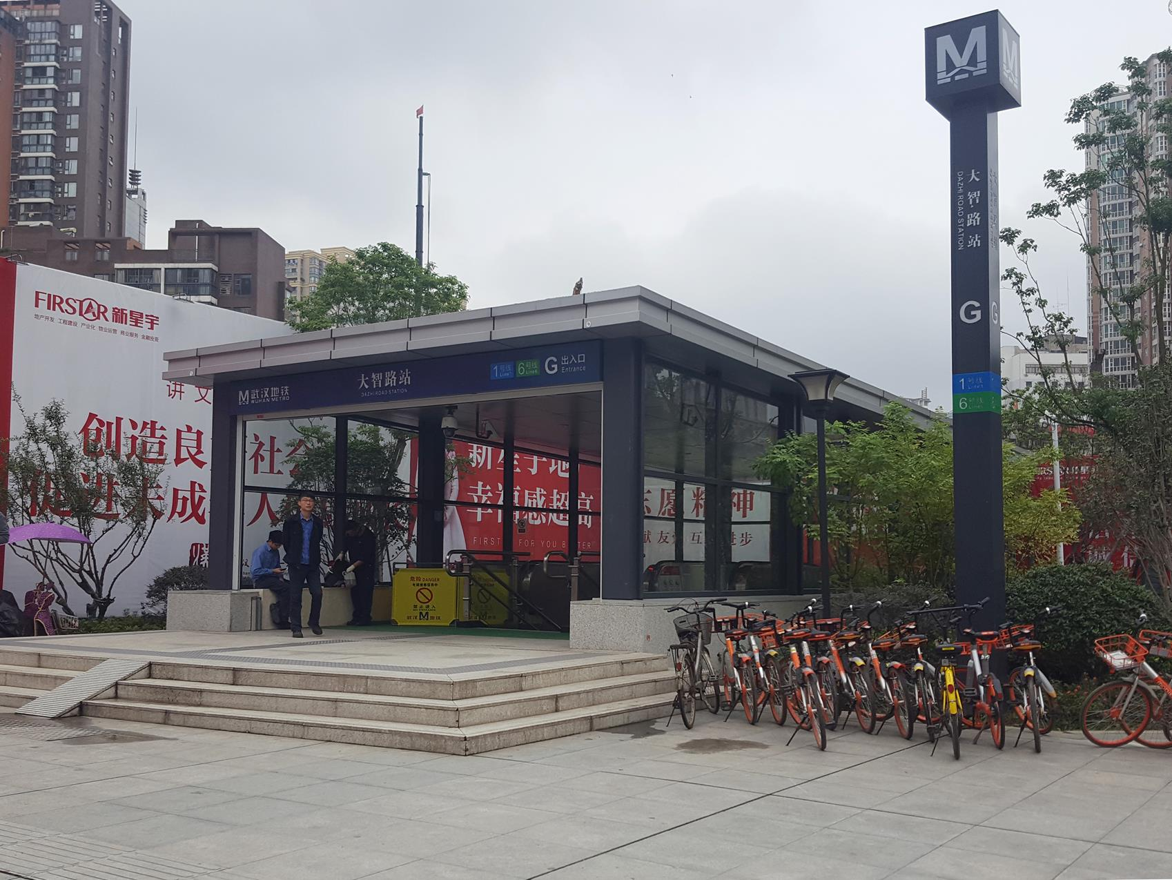 Entrance G of Dazhi Road Station, Wuhan Metro